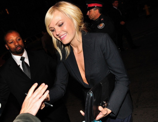 Malin Åkerman at the Toronto Film Festival.